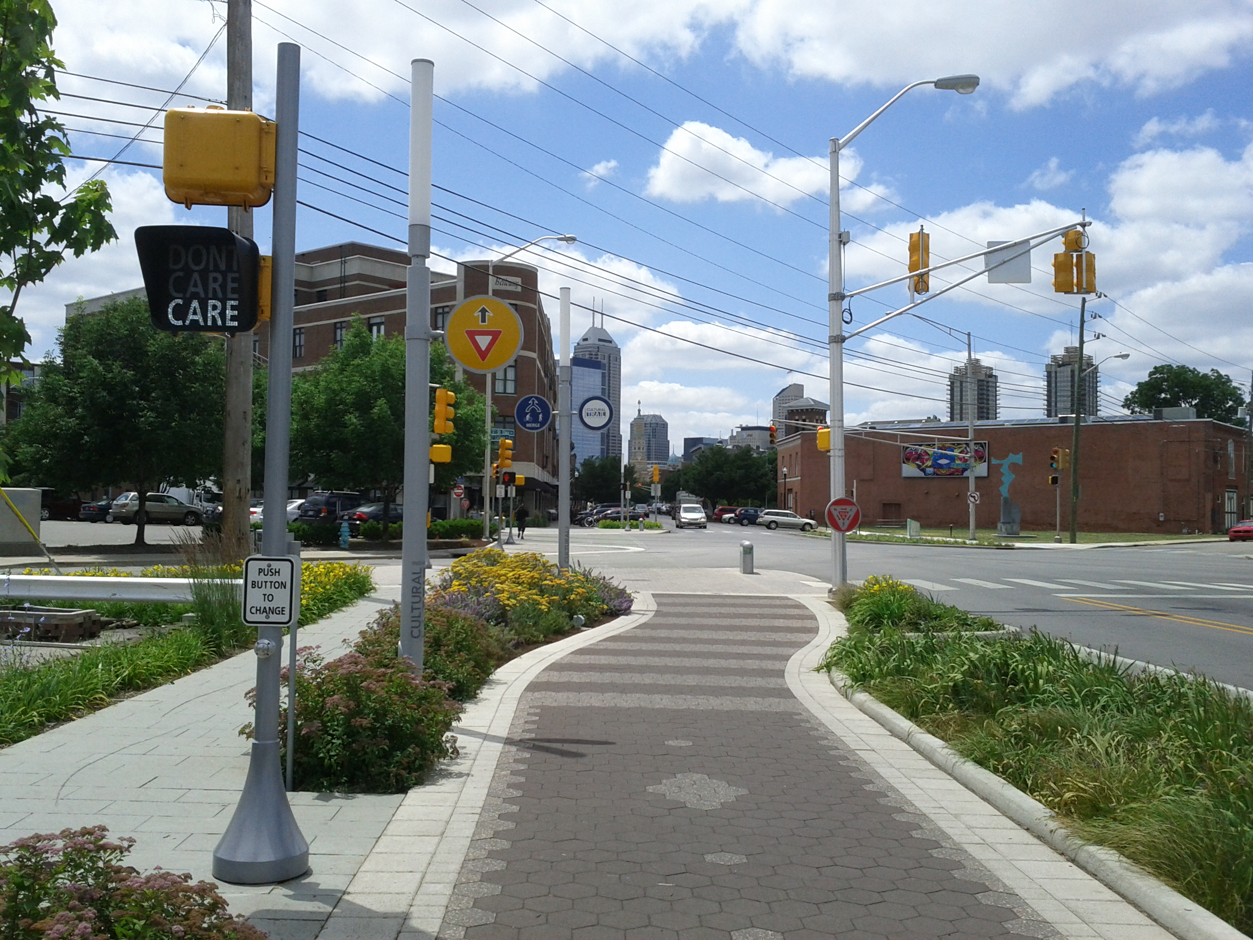 "Care/Don't Care," one of several pieces of art commissioned by the Indianapolis Cultural Trail, Inc. This image was captured looking southwest toward downtown Indianapolis, near the intersection of Saint Clair Street, Massachusetts, and North College avenues.